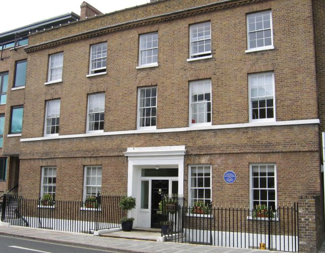 House in which Hogarth Press was founded by Leonard and Virginia Woolf at 34 Paradise Road, Richmond, London, UK. (It is now called "TBP House" or "Brooks House".) (51.460306°N, 0.301667°W)